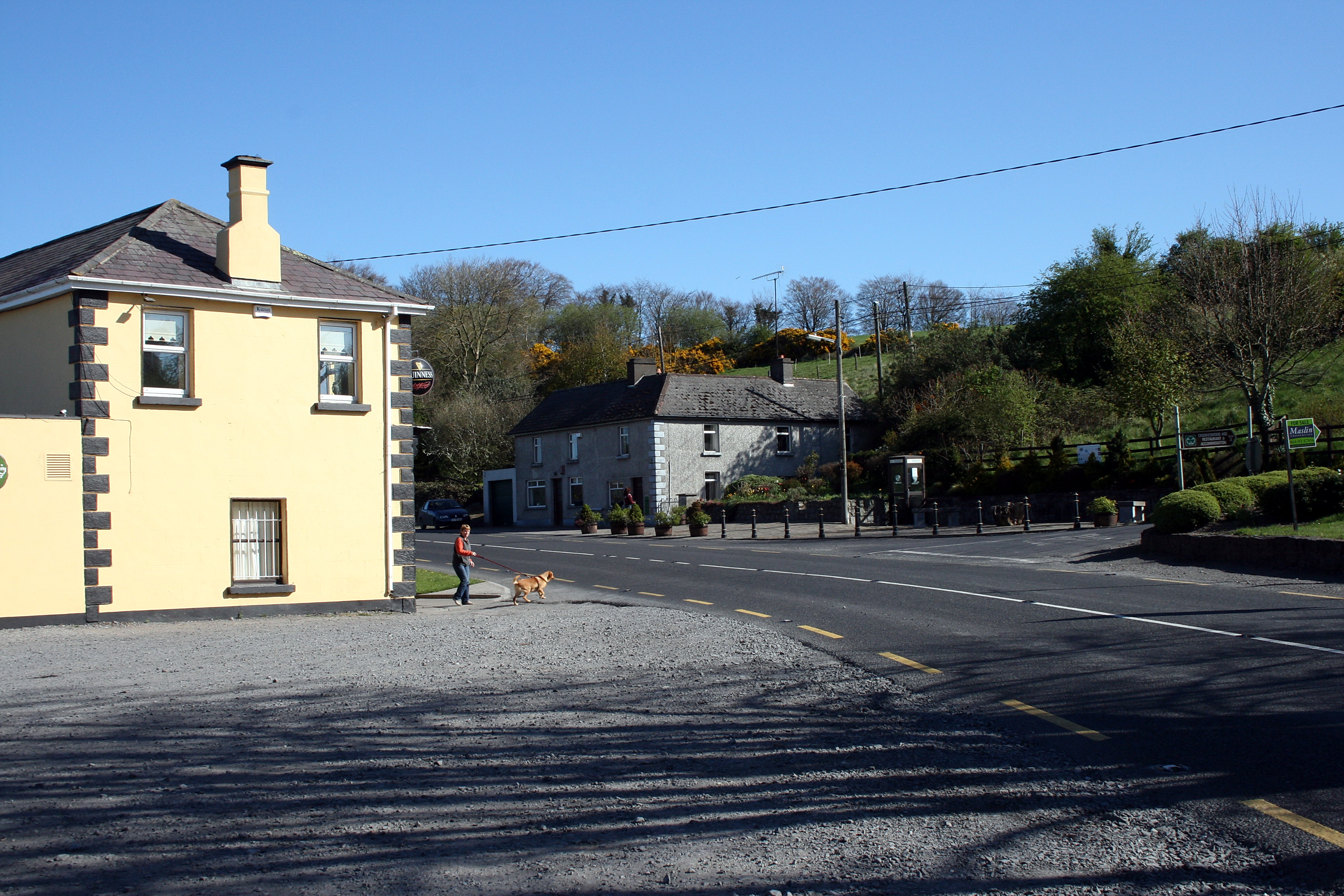 Crookedwood, County Westmeath